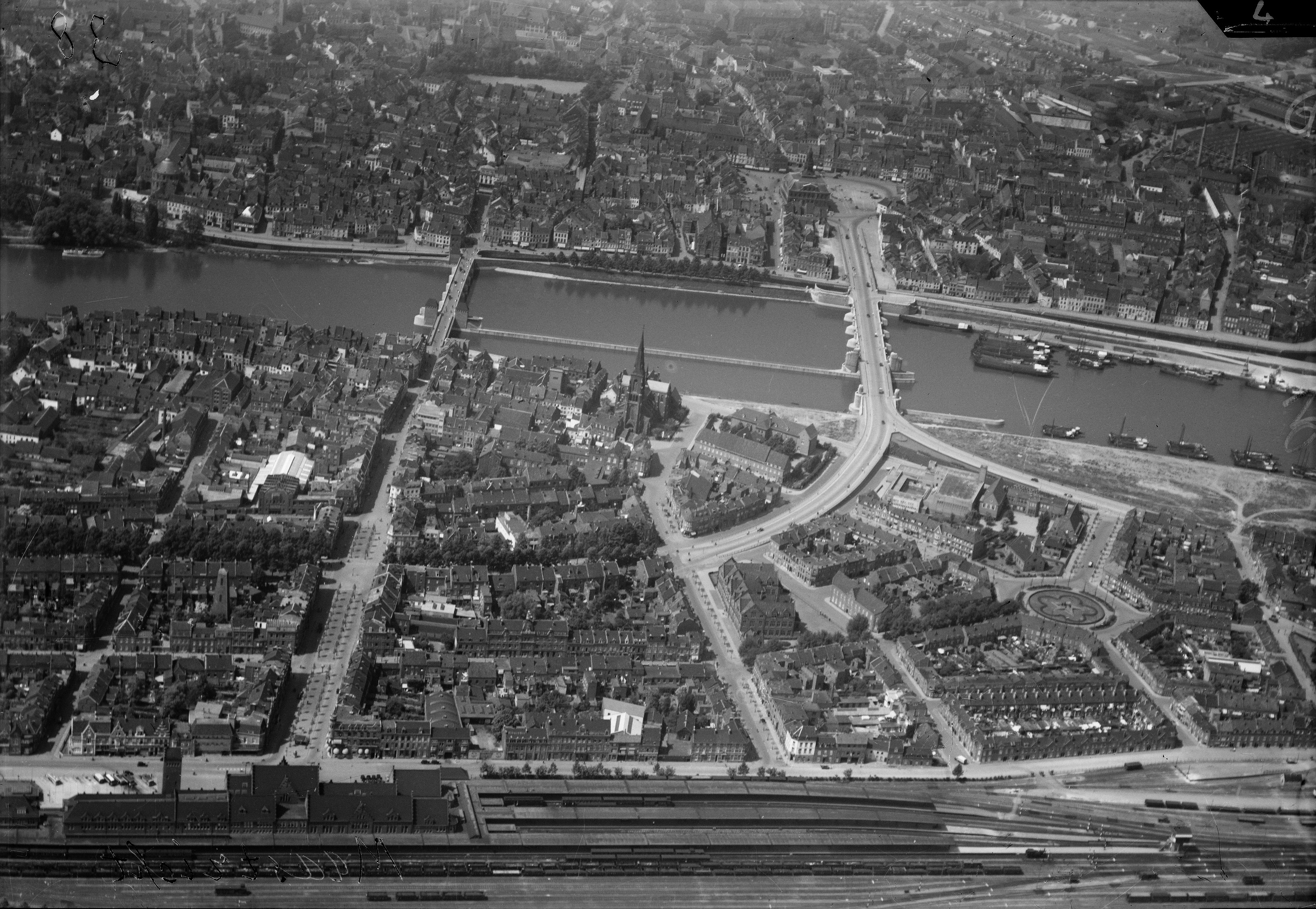 Aerial photograph of Maastricht, The Netherlands